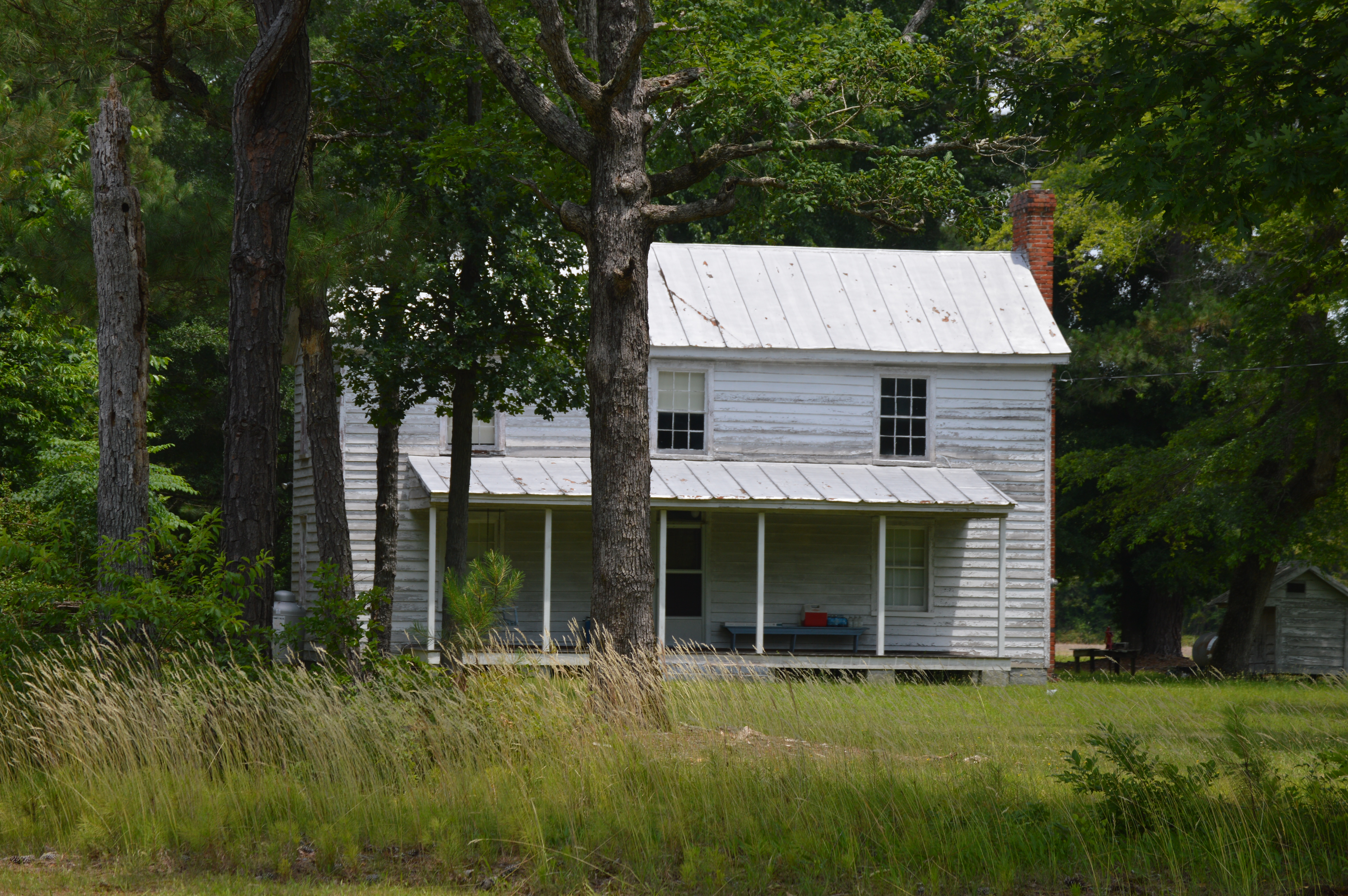 Front of the Rountree Family Farmhouse, located on North Carolina Highway 37 north of Gatesville in Gates County, North Carolina, United States. Built in 1830, it is listed on the National Register of Historic Places.